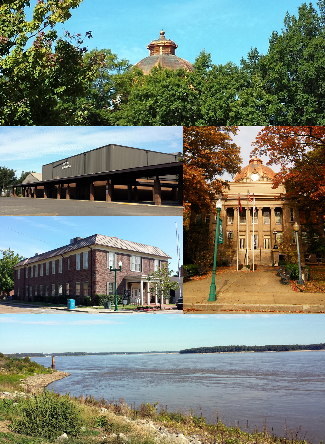 Collage of Osceola, AR